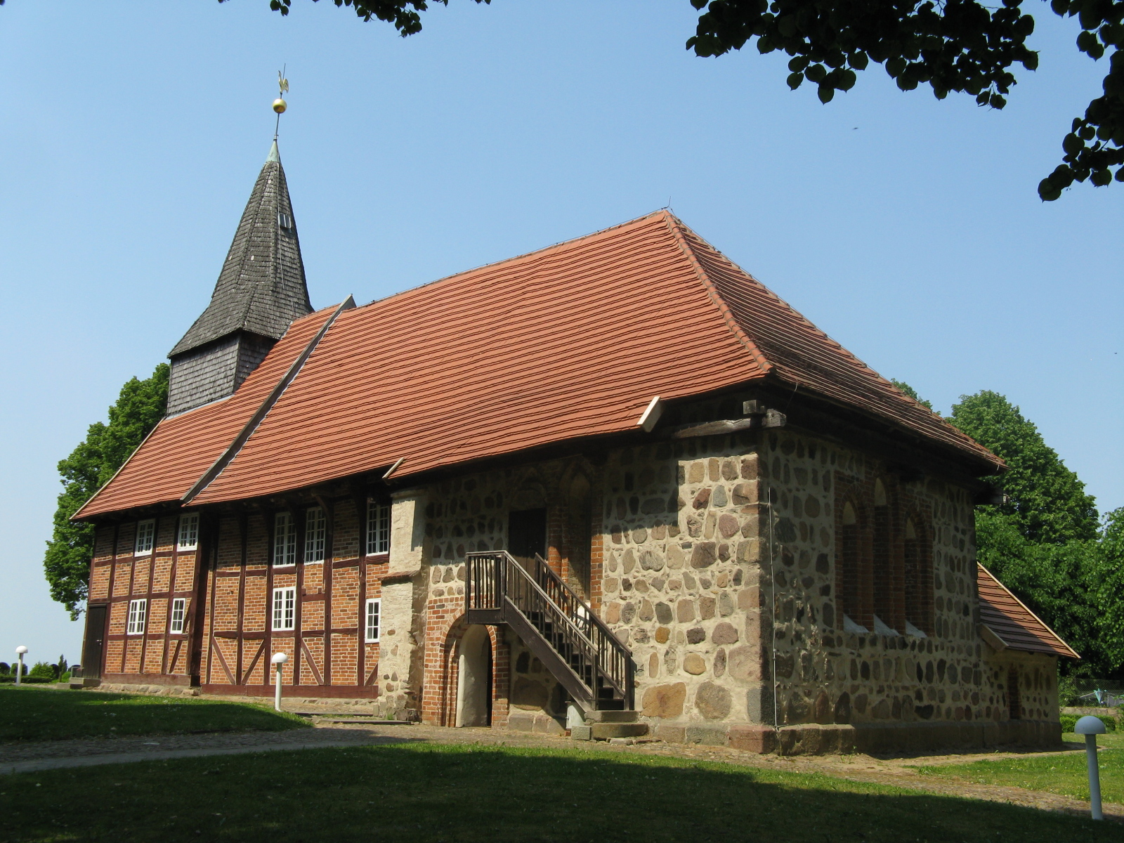 Church of Lassahn, Mecklenburg-Vorpommern, Germany